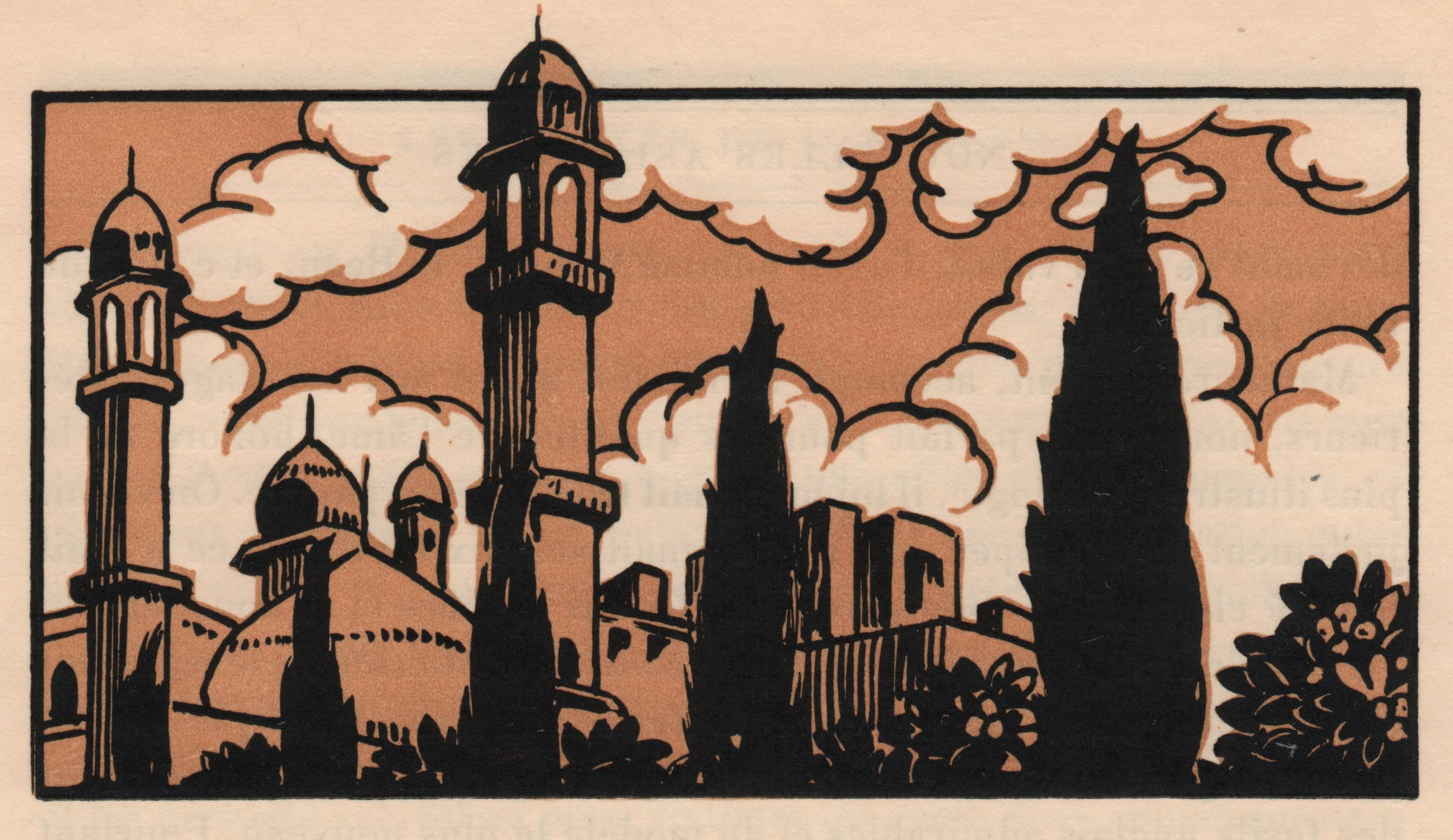 Illustration par Maurice Becque, page 217 du livre Nouvelles asiatiques de Joseph Arthur de Gobineau, Paris, éditions Crès 1924